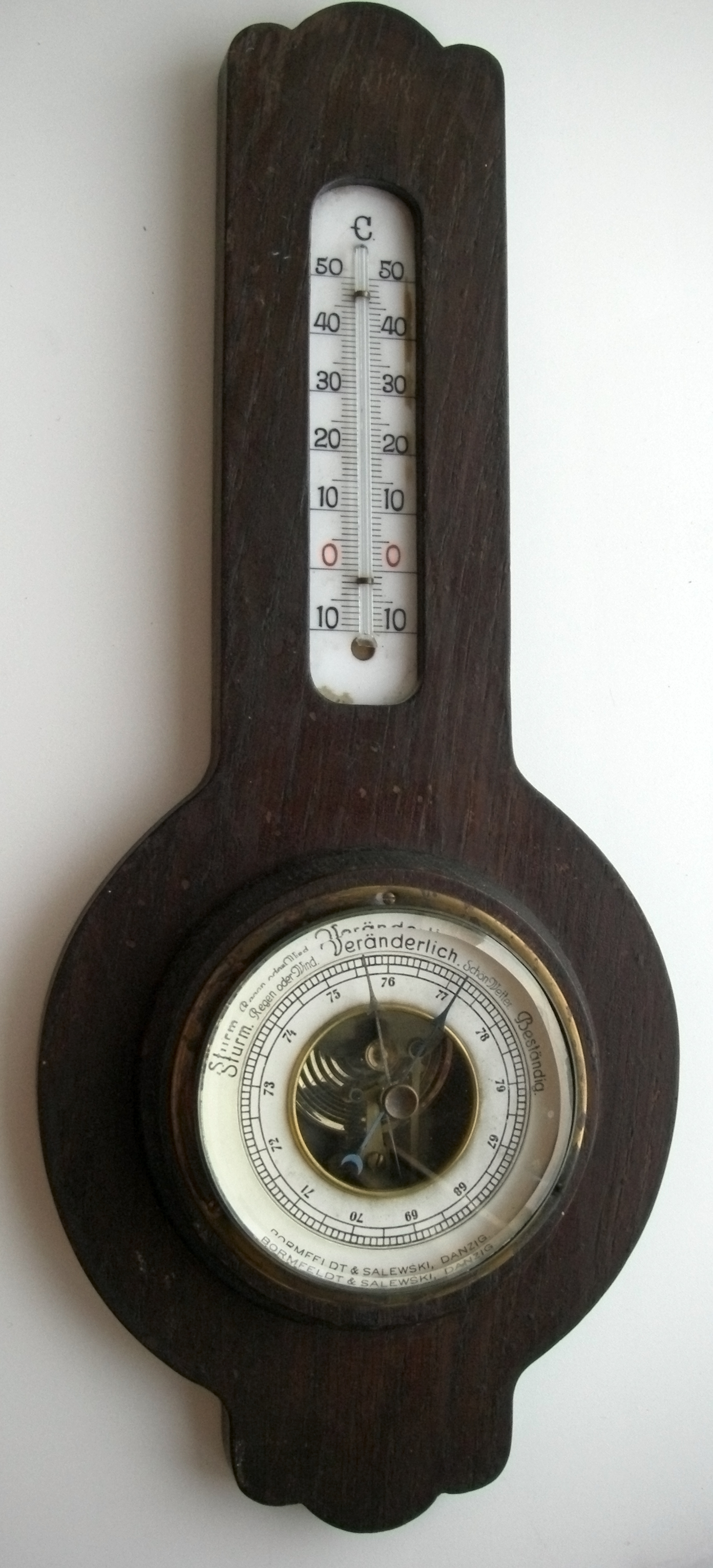 Barometer